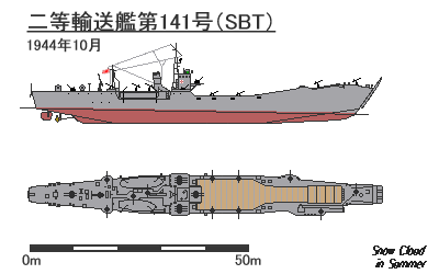 Figure of Japanese 2nd-class landing ship No.141 on October 1944.